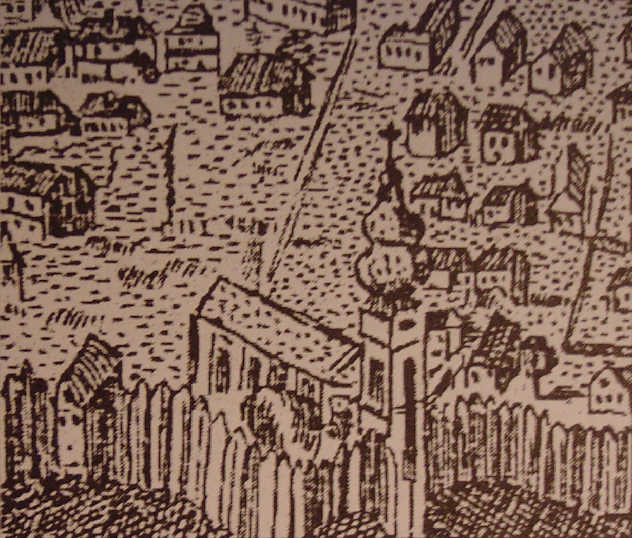 First-built Franciscan convent in Zemun, in copper engraving made by F. Binder in 1780.